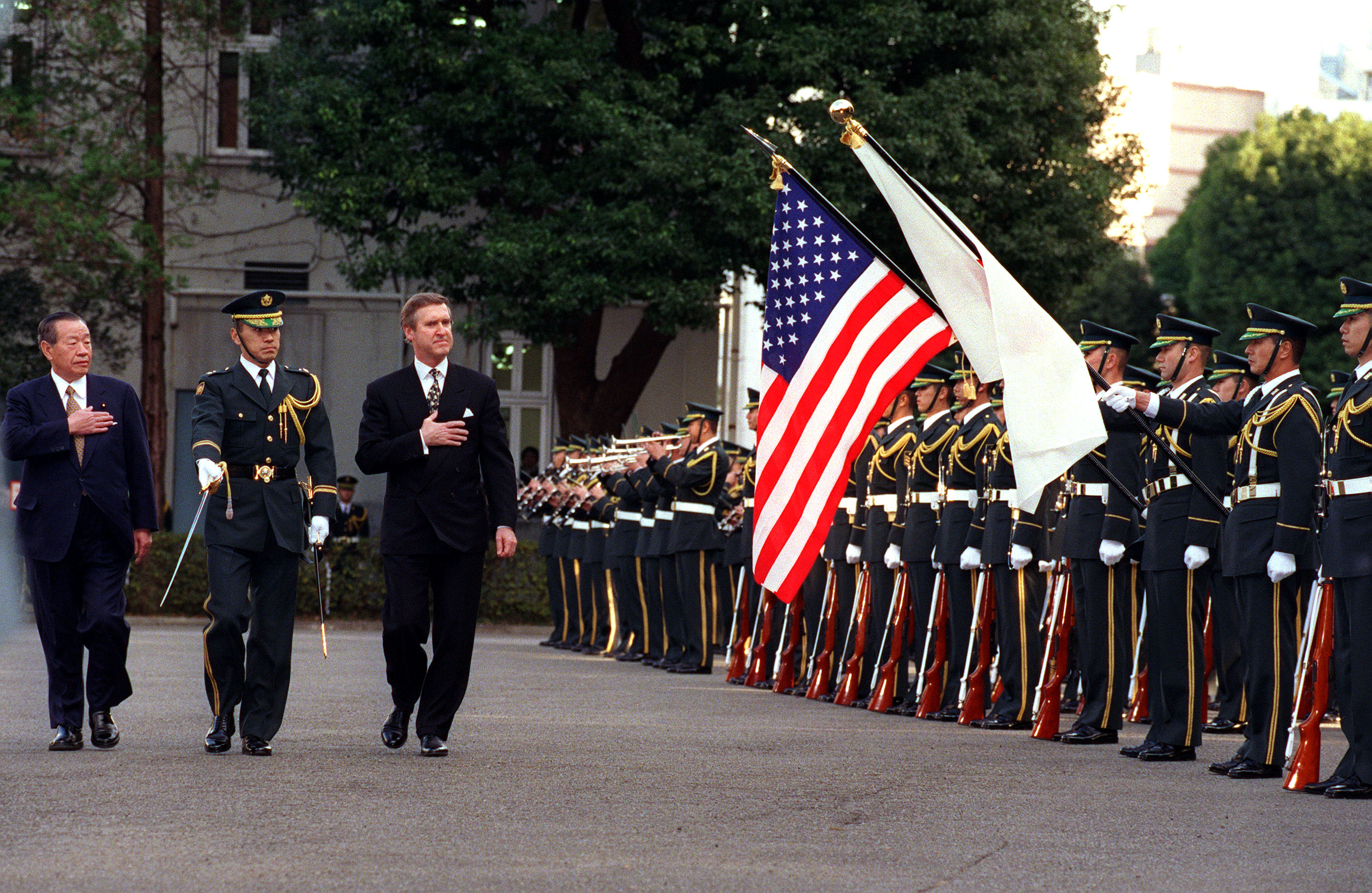 Secretary of Defense William Cohen (right) is welcomed to the Japan Defense Agency in JGSDF Camp Hinokicho, Roppongi, Tokyo, Japan, with a full honors military arrival ceremony hosted by Hosei Norota (left), the agency's director general, on Jan. 13, 1999. Cohen will meet with Norota to discuss a range of security issues, both regional and global, of mutual interest to both nations. Cohen is visiting Tokyo as part of a five-day trip to Japan and the Republic of Korea.